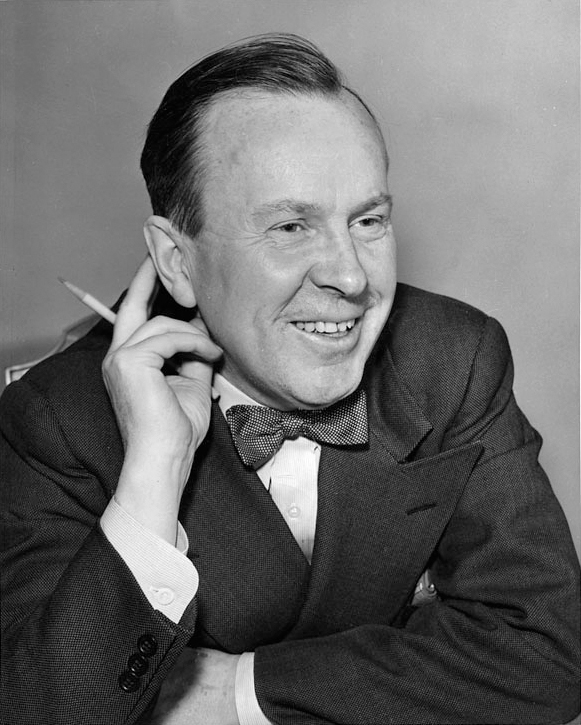 Lester B. Pearson with a pencil Date(s): 11 Aug 1944 , Place of publication: Toronto, Ont, Credit: Star Newspaper Toronto / The Ottawa Journal / Library and Archives Canada / e002505448 Copyright: Expired Photographer: Star Newspaper MIKAN No. 3607934 This Canadian work is in the public domain in Canada because its copyright has expired due to one of the following: 1. it was subject to Crown copyright and was first published more than 50 years ago, or it was not subject to Crown copyright, and 2. it is a photograph that was created prior to January 1, 1949, or 3. the creator died more than 50 years ago.